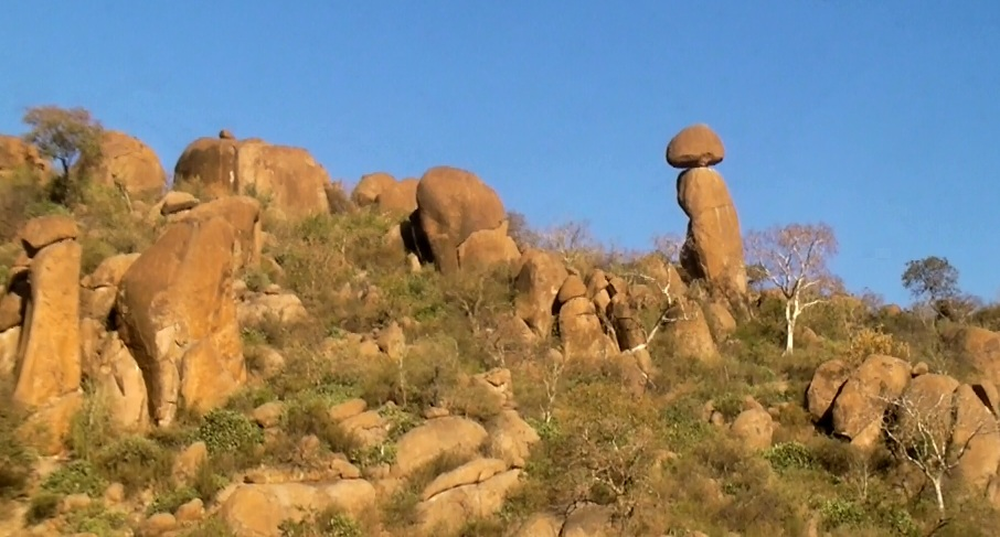 Screengrab from a video taken while travelling through the "Valley of Marvels" near Babille, Ethiopia